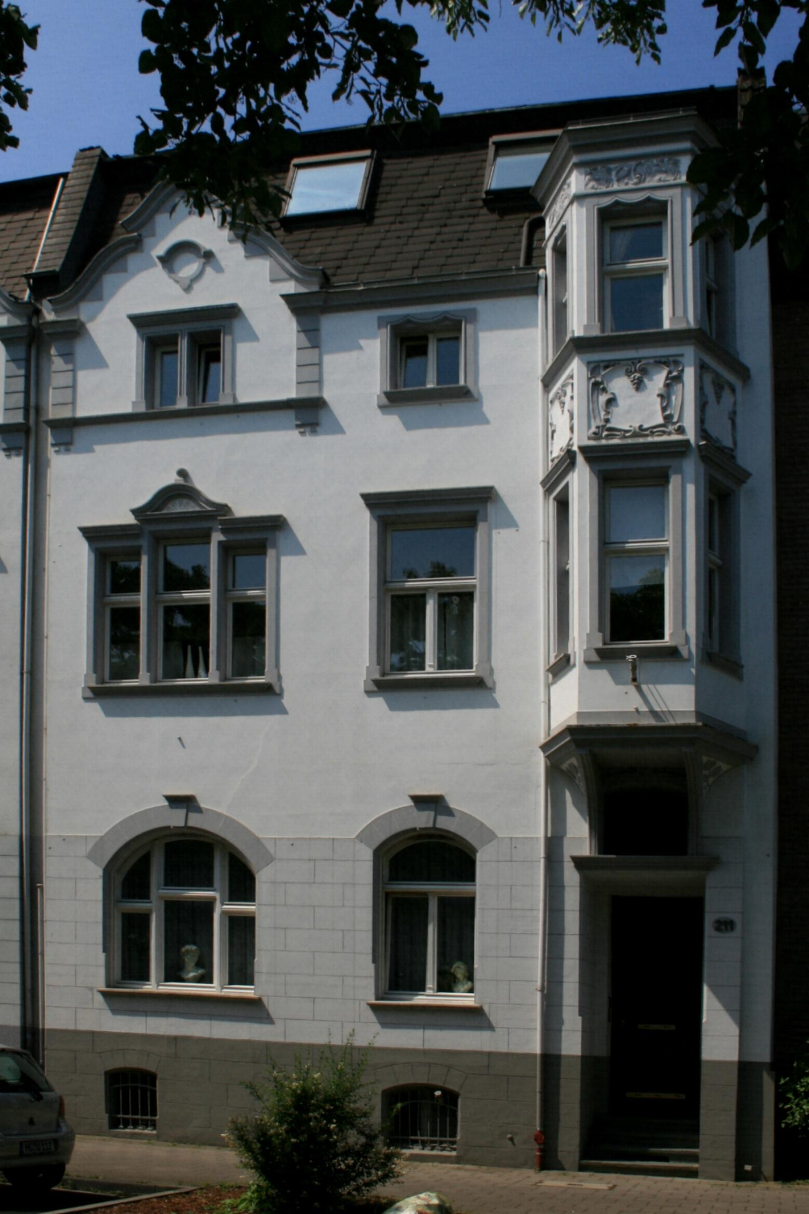 Cultural heritage monument No. B 105 in Mönchengladbach